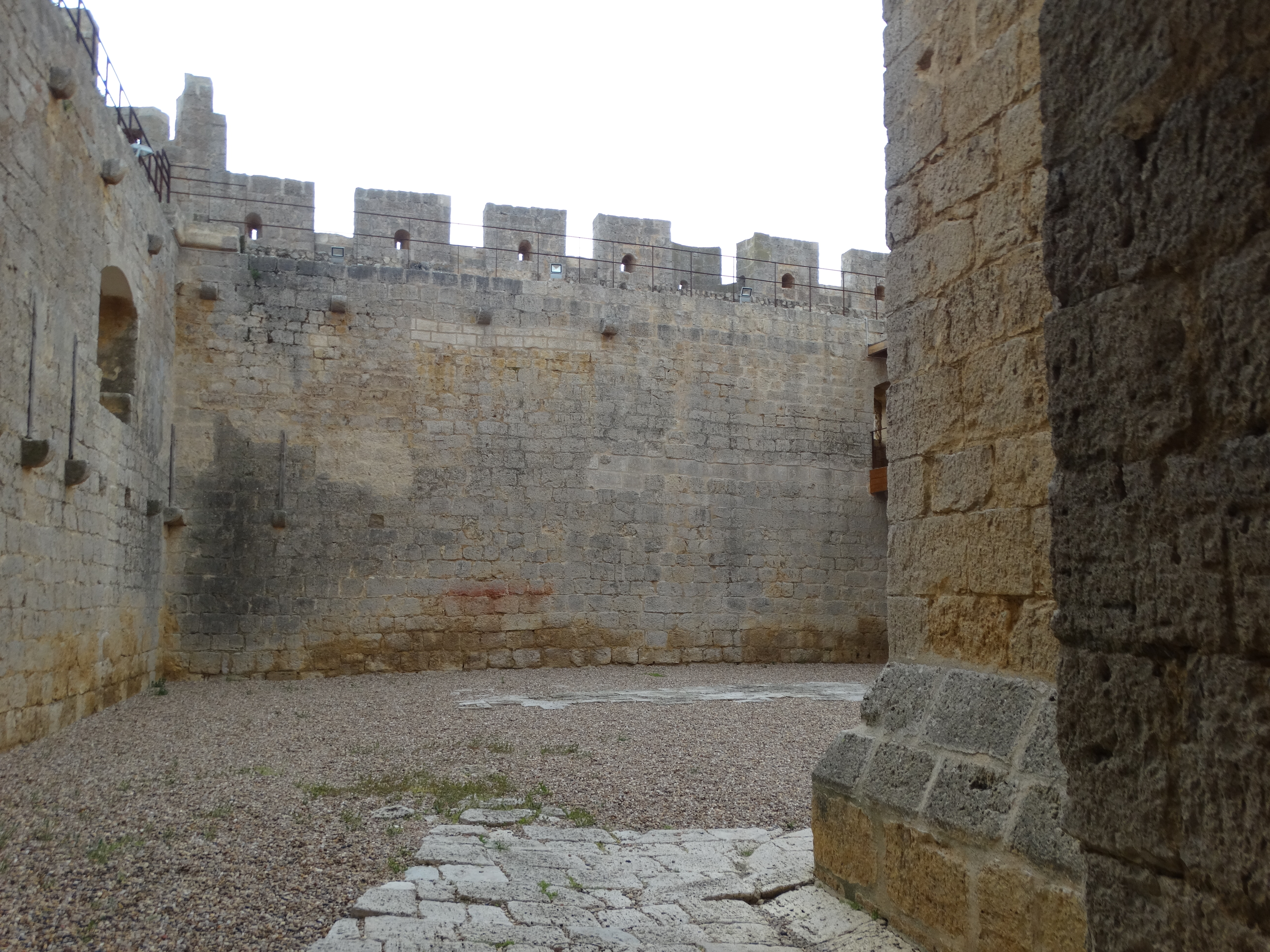 Castillo de Villalonso in the municipality of Villalonso, Zamora, Spain. It is a type of castle-palace rebuilt in the fifteenth century following the characteristics of the Valladolid school. Previously in century XIII there was another fortification that belonged to the order of Alcántara.